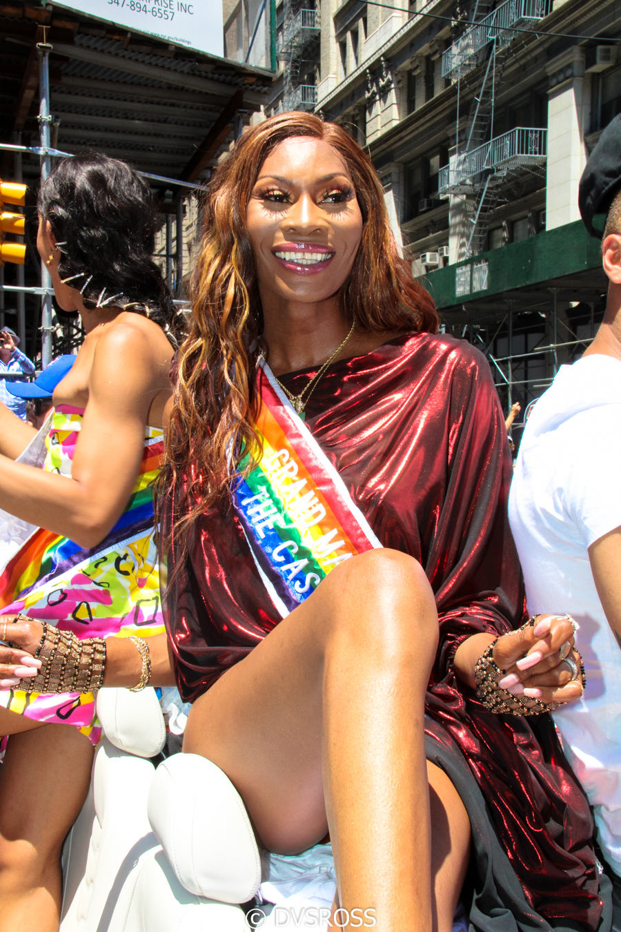 New York Pride 50 - 2019-126